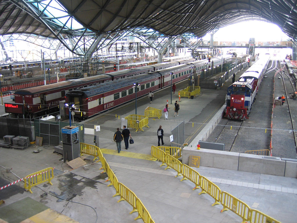 Construction work at Southern Cross Station - Melbourne, Australia